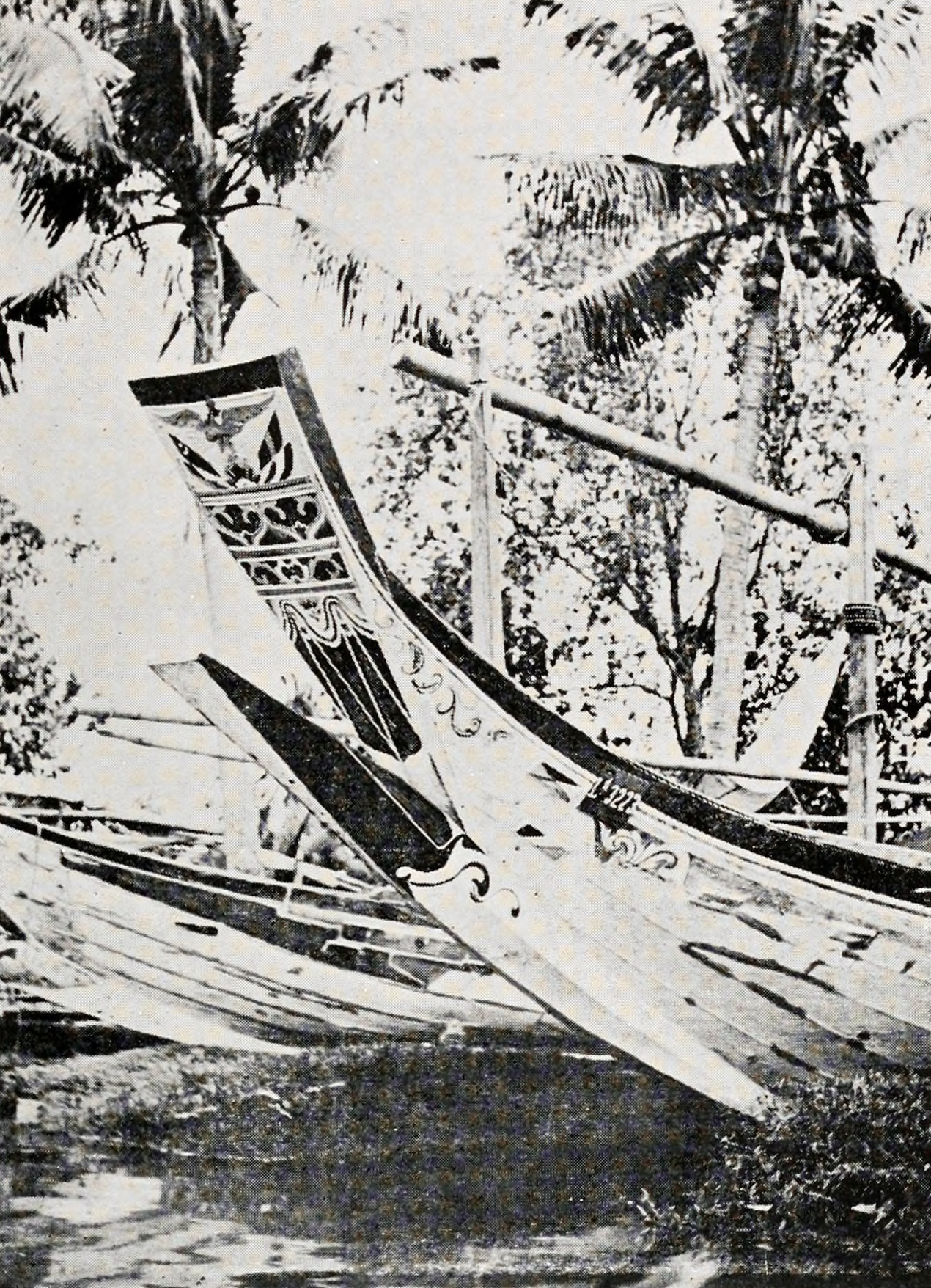 Bifid prow of a Madura kolek (golekan) (Hornell, 1920)